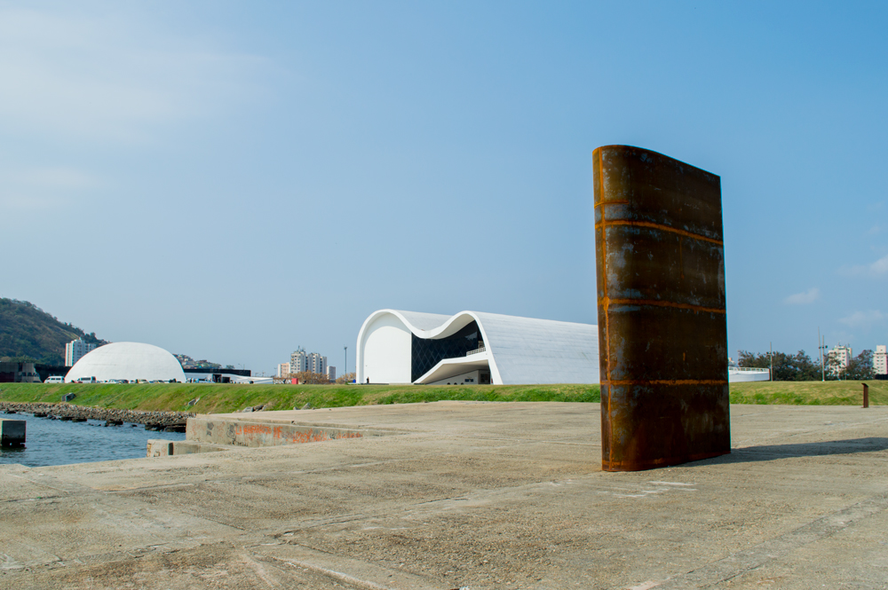 Sculpture "Monumento ao Horizonte" [Monument to the Horizon] (2016) by artist Felippe Moraes in front of Teatro Popular Oscar Niemeyer in Niterói.